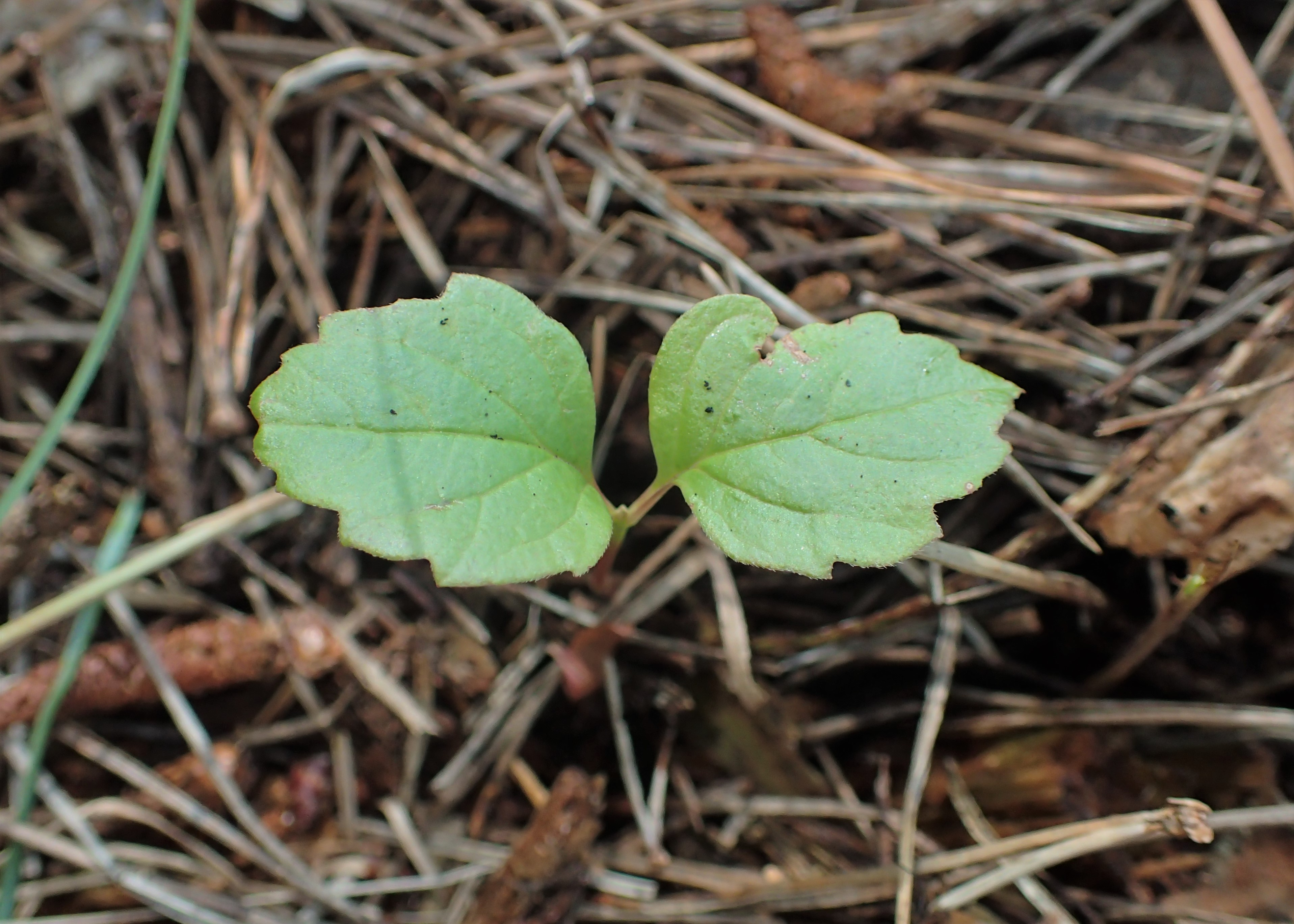 Viburnum opulus seedling. Dąbki near Darłowo, NW Poland